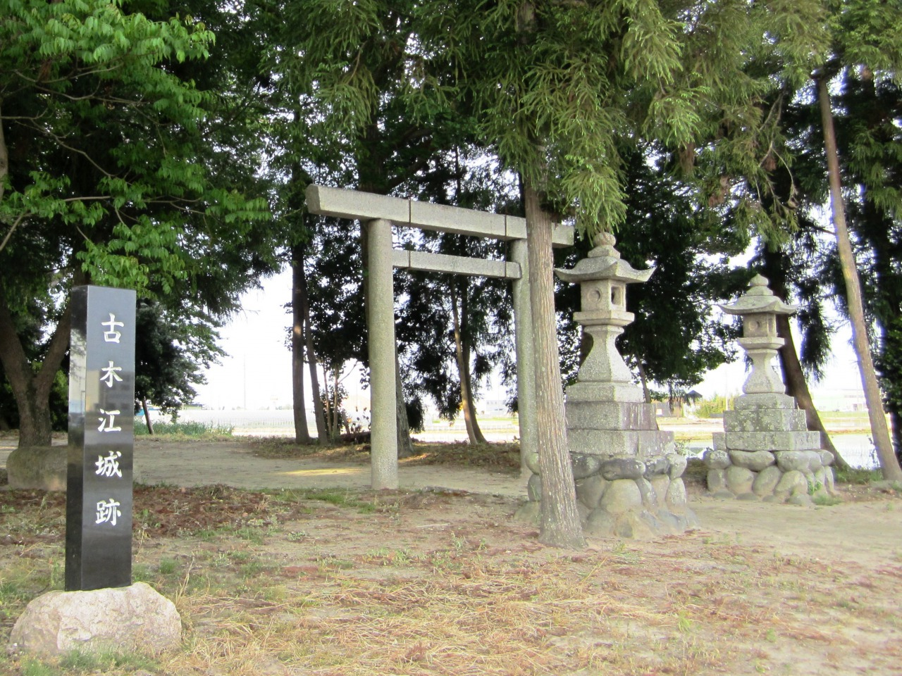 The Site of Kokie Castle in Aisai, Aichi.